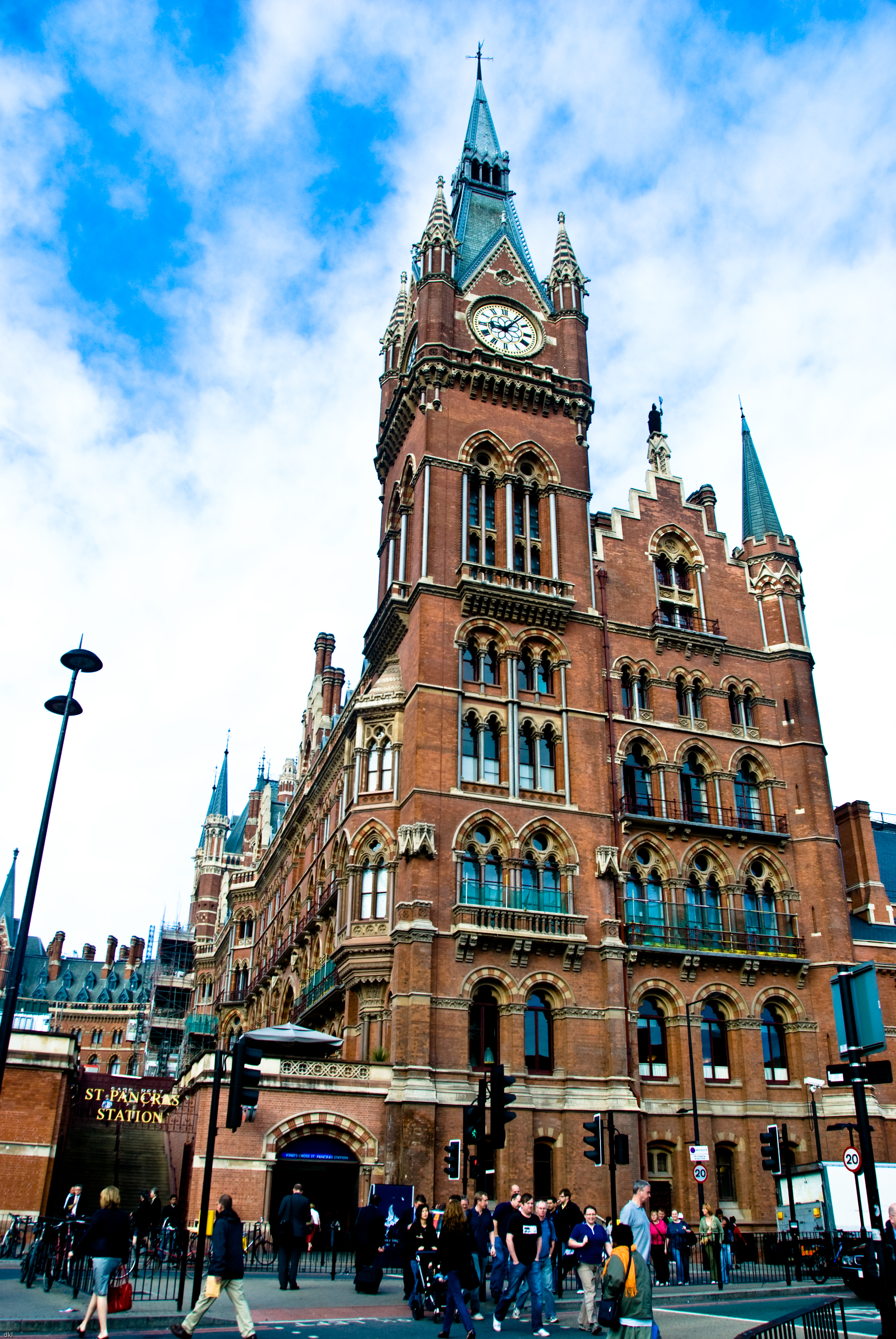 St Pancras Railway Station